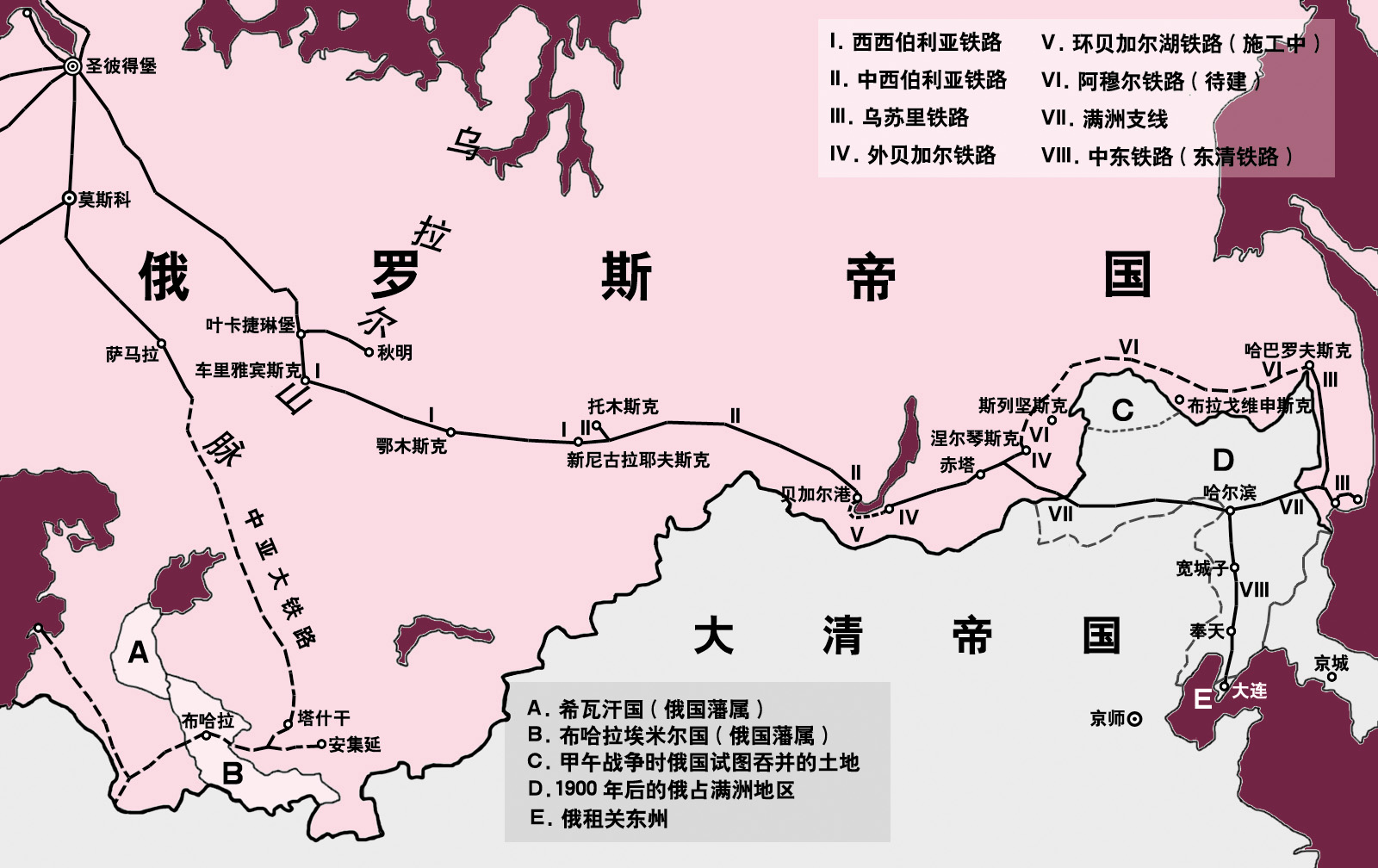 A diagram of trans-Siberian railway